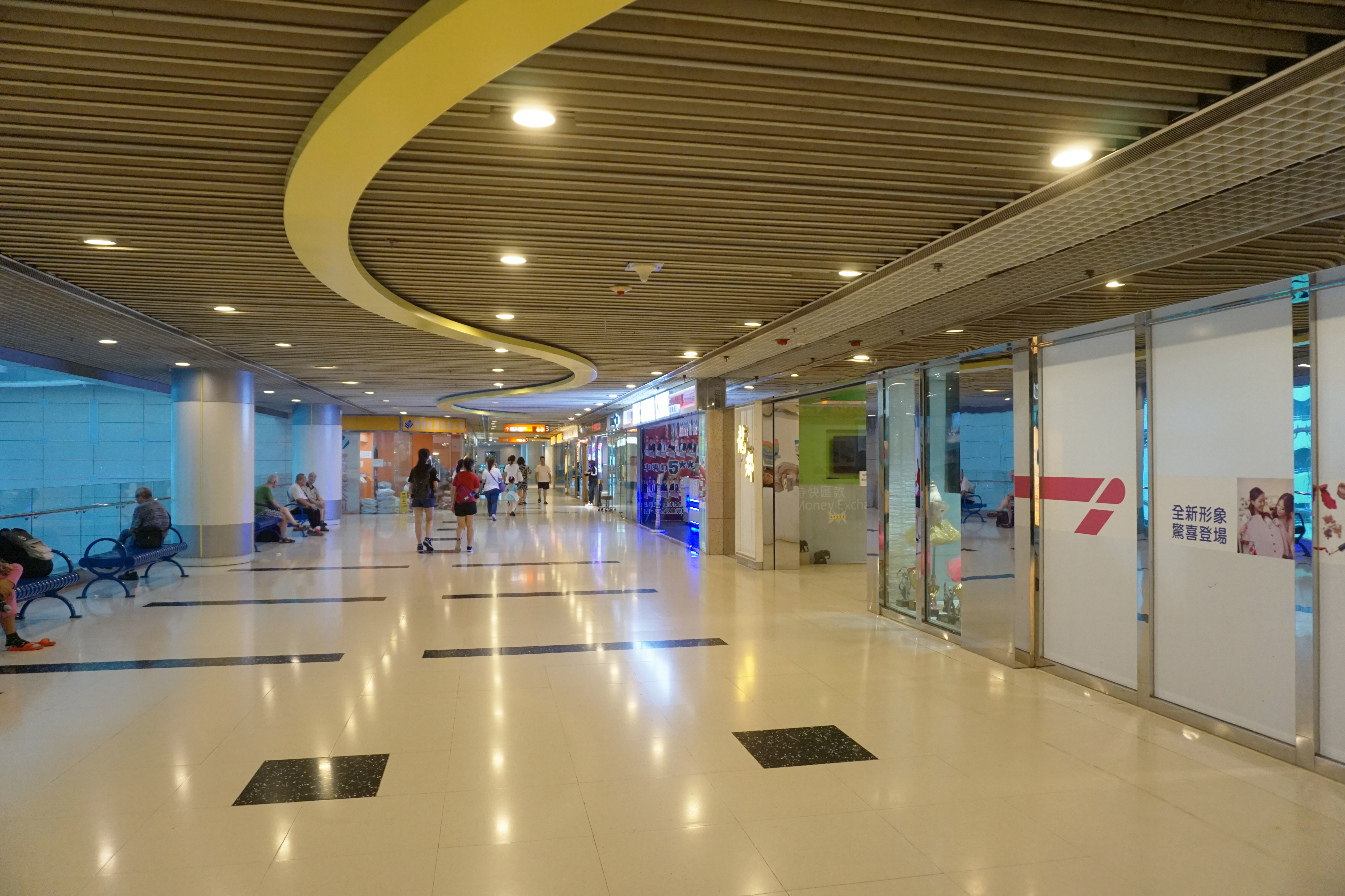 Tin Chak Shopping Centre in Tin Shui Wai, Hong Kong.